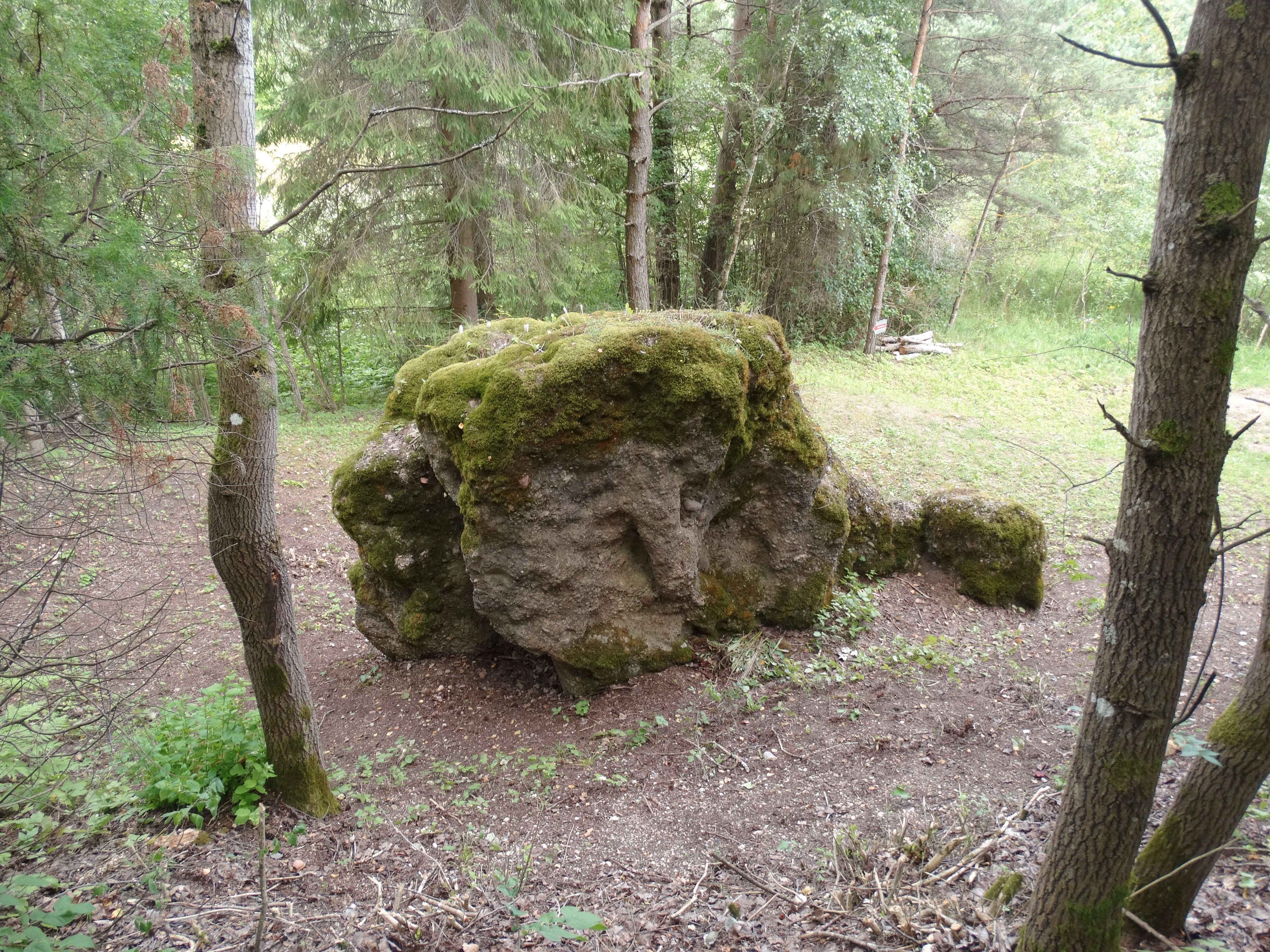 Conglomerate in Antakmenė, Ignalina district, Lithuania